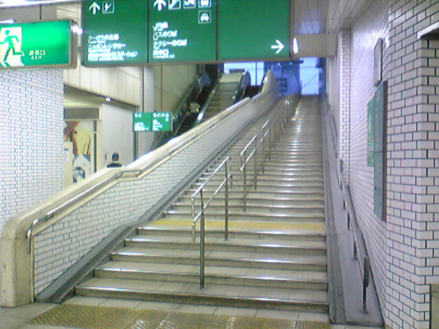 Kintetsu Osaka Abenobashi Station Koshin guchi Exit